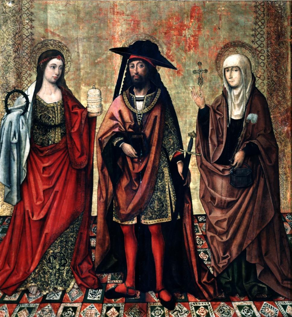 St Lazarus between Martha and Mary.